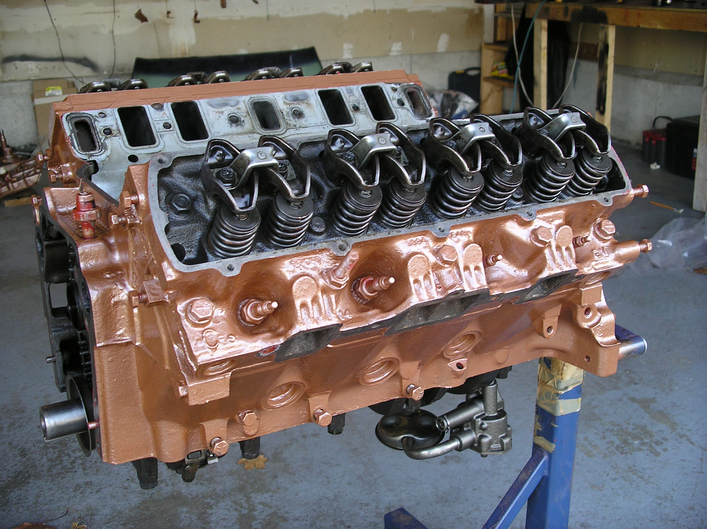 In certain applications, this Big Block Oldsmobile 400 cubic engine is capable of delivering 360 horsepower and a 440 foot-lbs of torque.